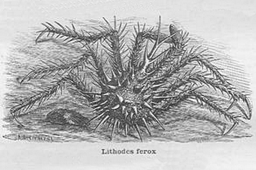 Lithodes ferox